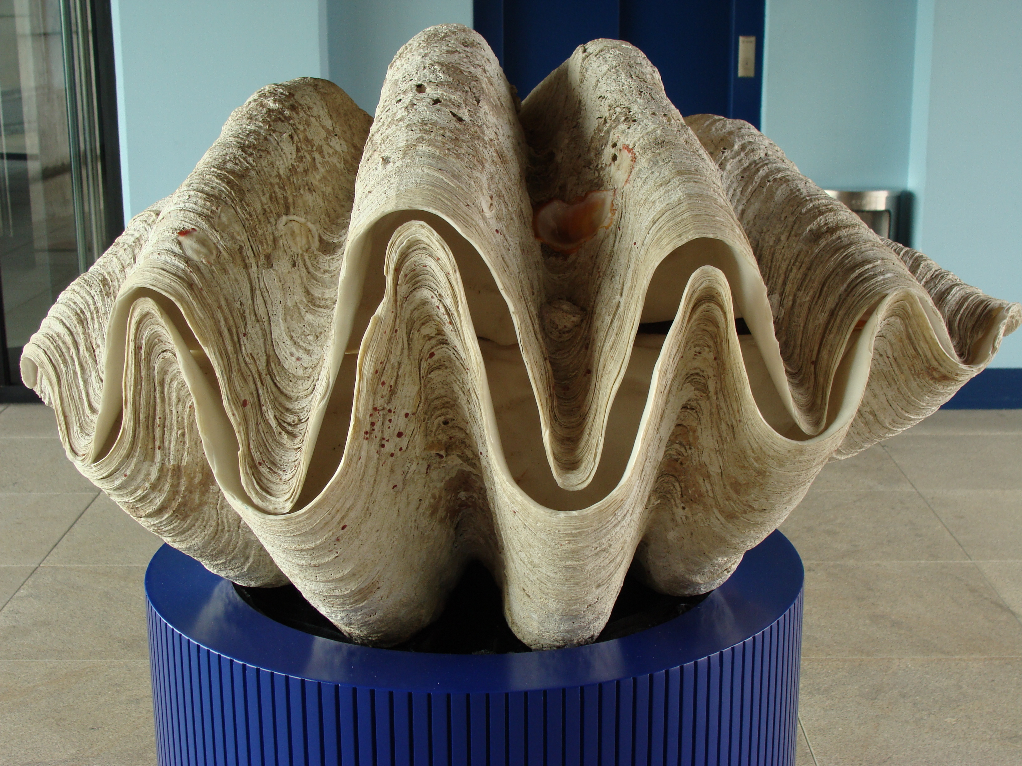 Tridacna gigas (Giant clam) in Aquarium Finisterrae (House of the Fishes), in Corunna, Galicia, Spain.